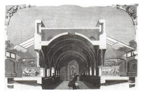 An 1865 sketch of a cross section of the aquarium at the Zoological Gardens of Hamburg.